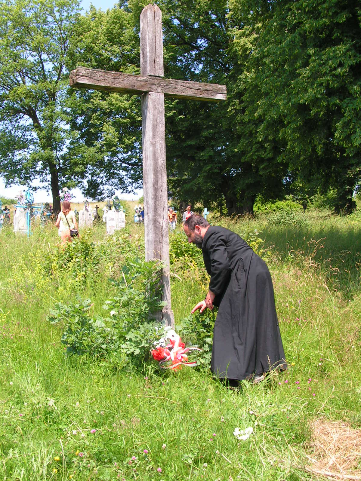 2001, Tadeusz Isakowicz-Zaleski under the cross of Poles murdered by the UPA on February 28, 1944.